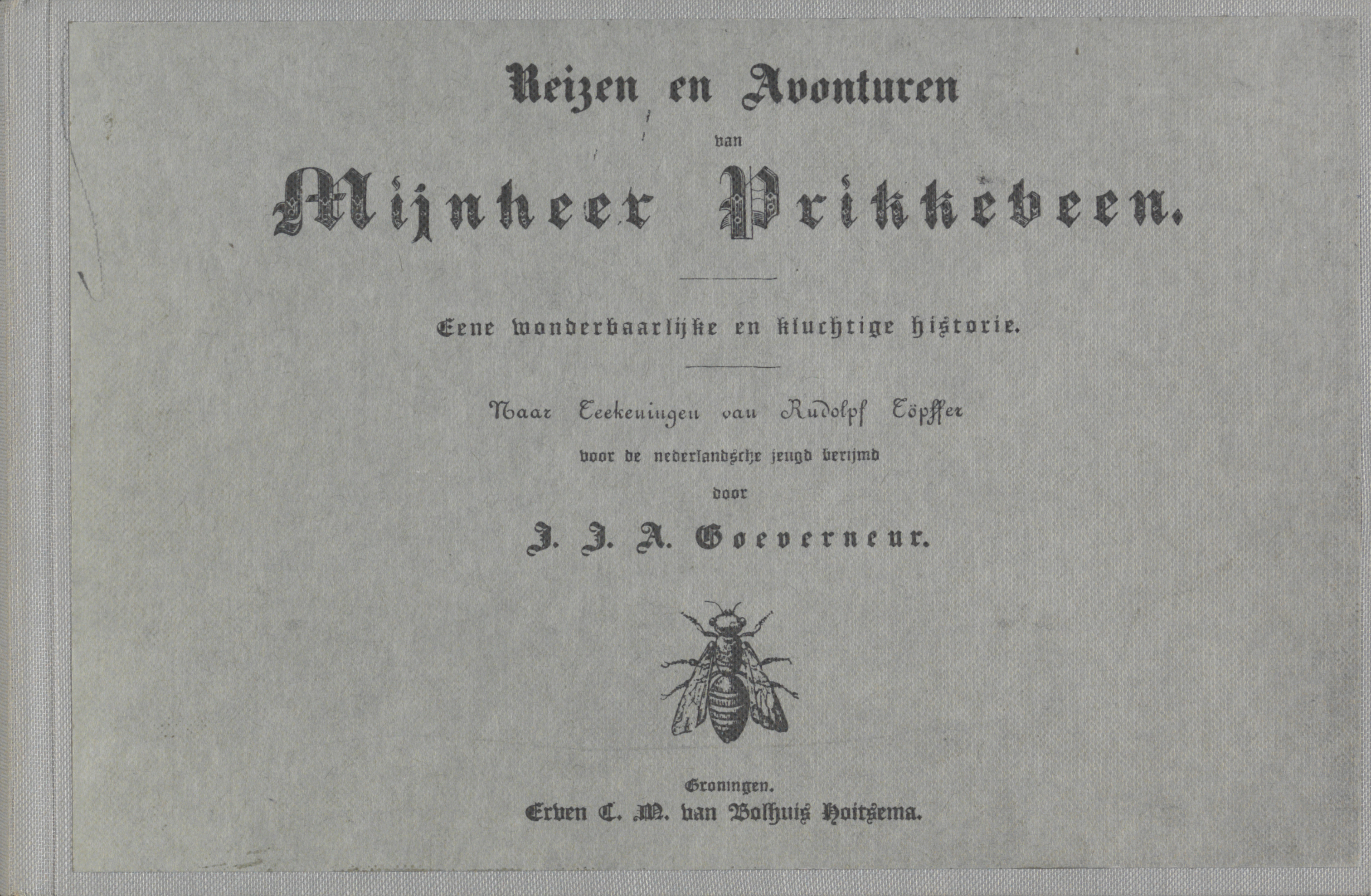 Mijnheer Prikkebeen